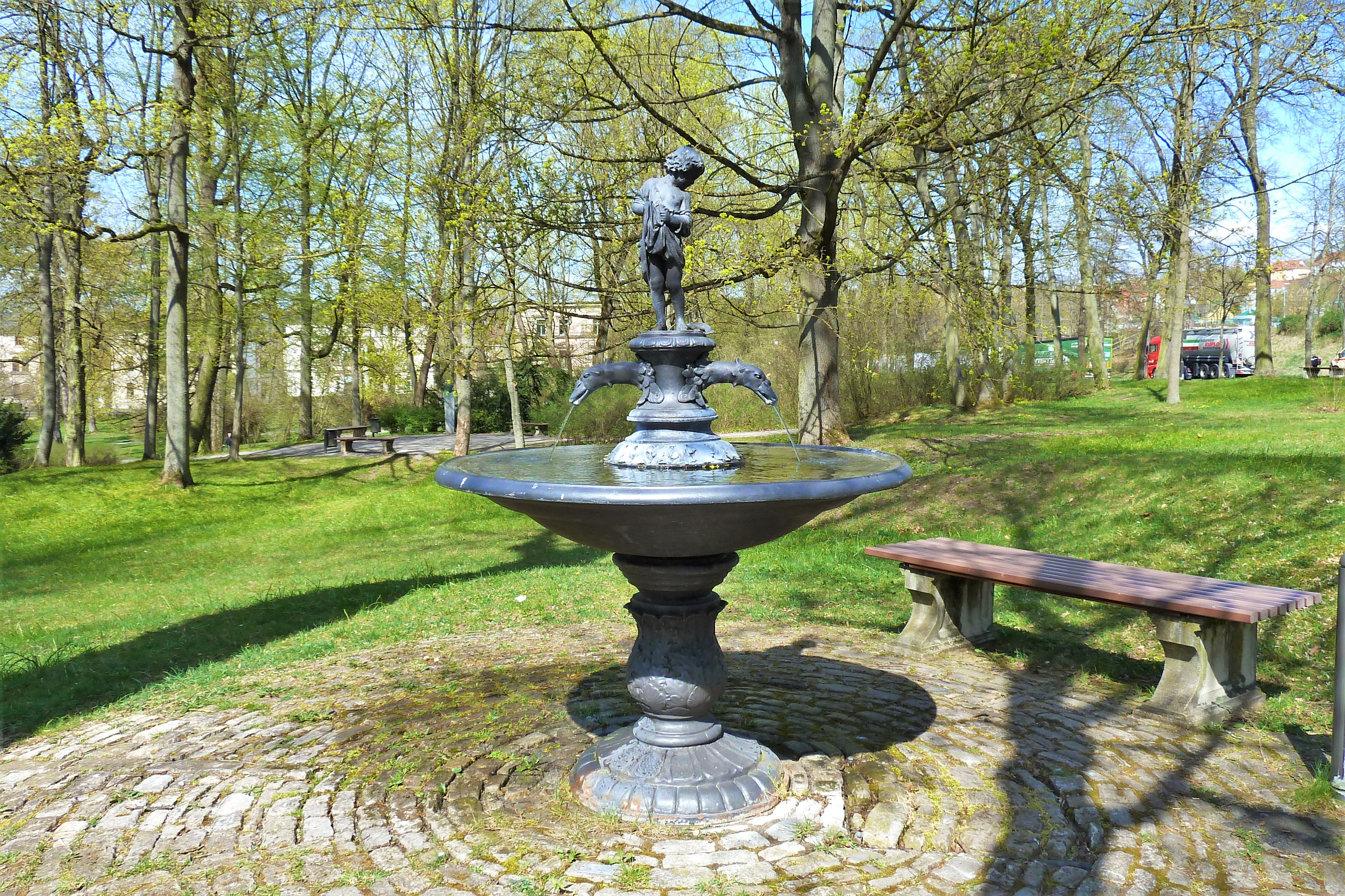 Fountain Fischknabe in City Meiningen, Germany